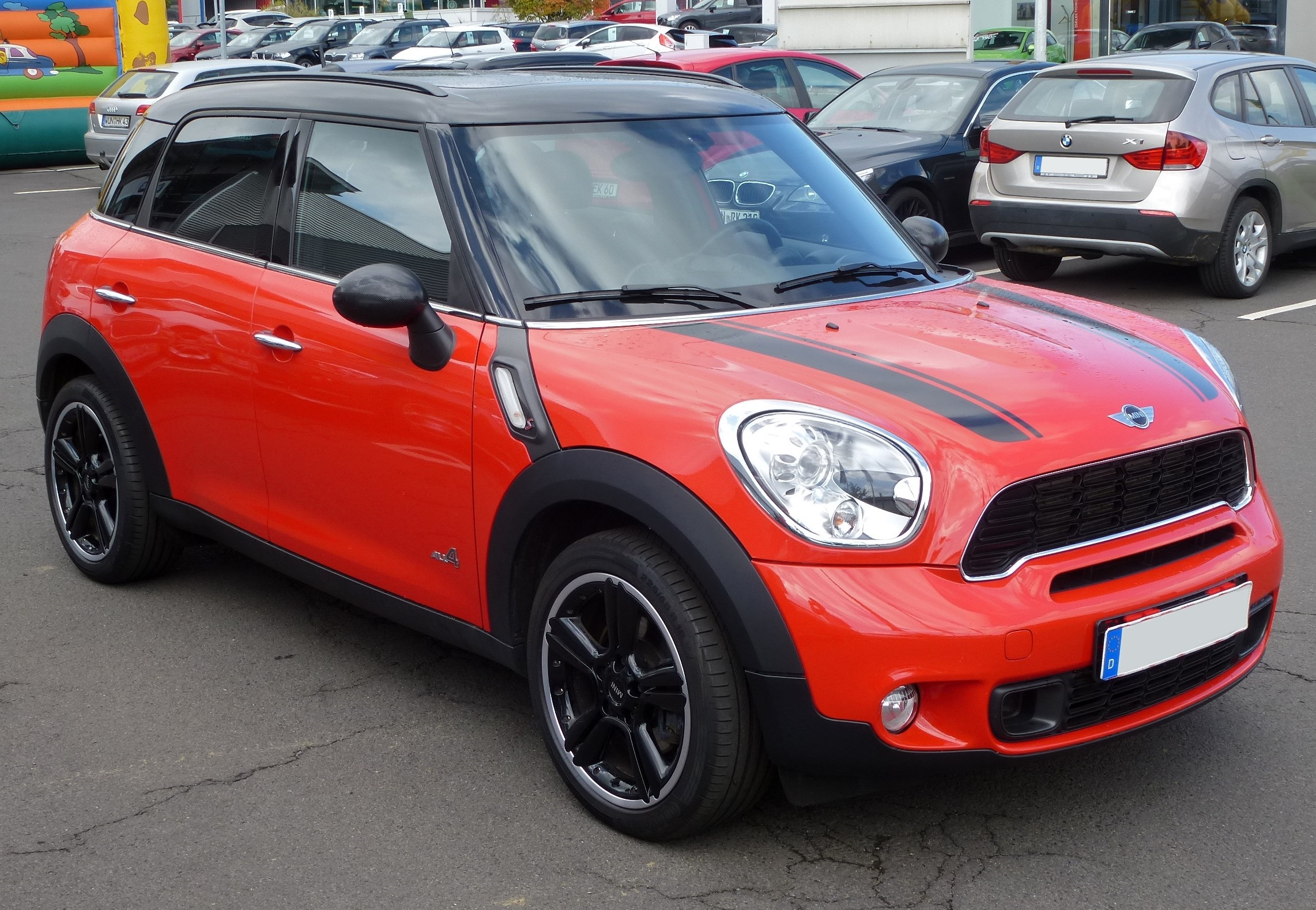 Mini Countryman